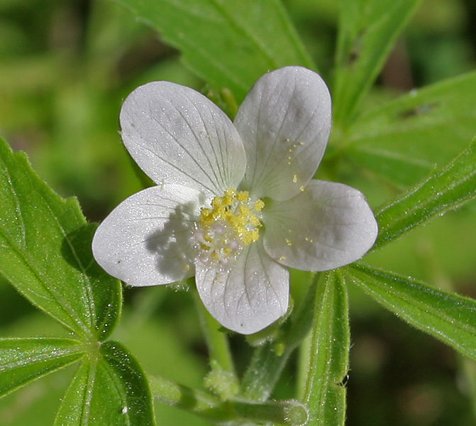 Lahan Jaswand Hibiscus lobatus in Hyderabad , India.